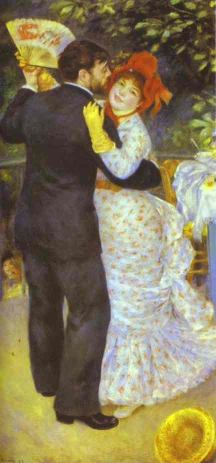 Aline Charigot and Paul Lhote dancing